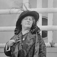 Viscount Rhondda, Lady Rhondda, Wales, Liberal, Suffragette